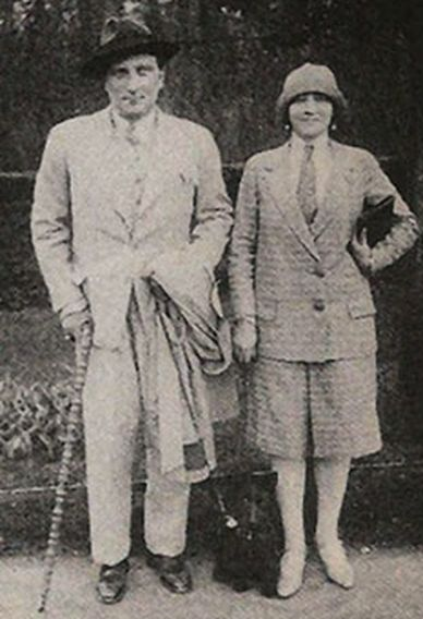 Screenwriter Benno Vigny (1889-1965) and Marie-Louise Caussat (1889-1989), Charles Trenet's mother circa 1920